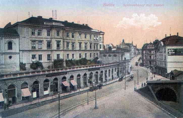 Bielsko-Biała: Sułkowski Castle with Bazary Zamkowe and Zamkowa Street in 1915.